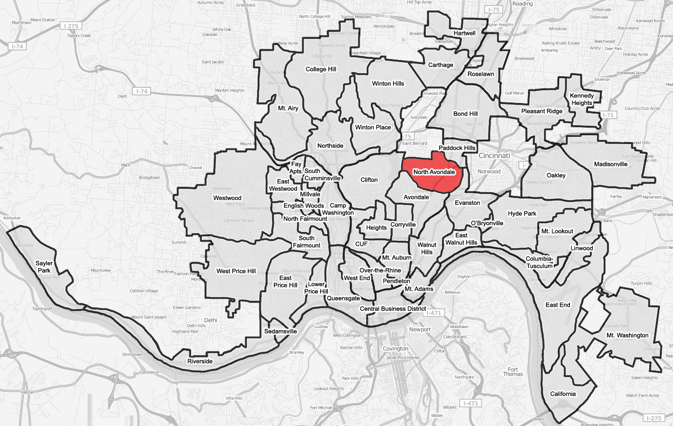 A map of the neighborhood of North Avondale within Cincinnati, Ohio. Neighborhood lines are based on information from This street map is derived from a free map.